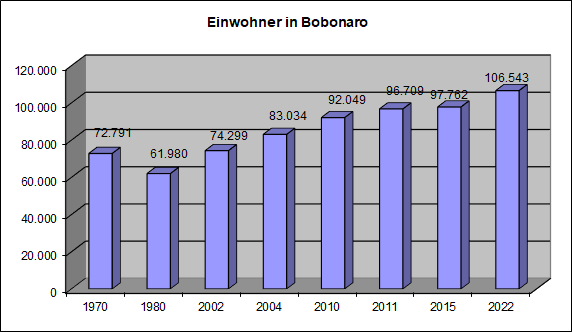 Population in Bobonaro/East Timor